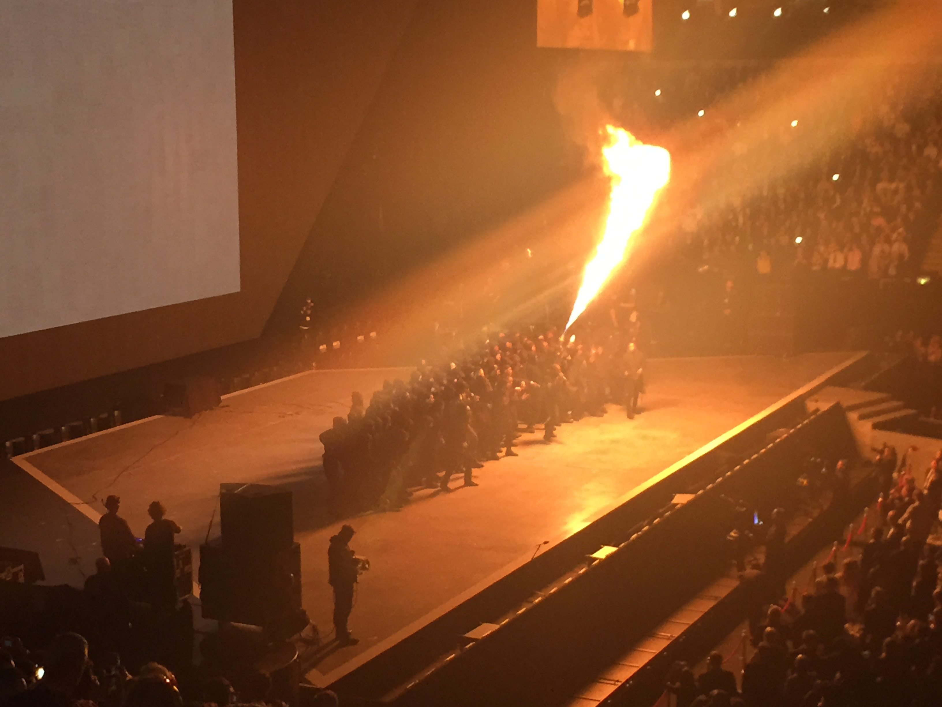 Kanye West performing the song "All Day" at the thirty-fifth annual BRIT Awards on February 25, 2015 in London, England.